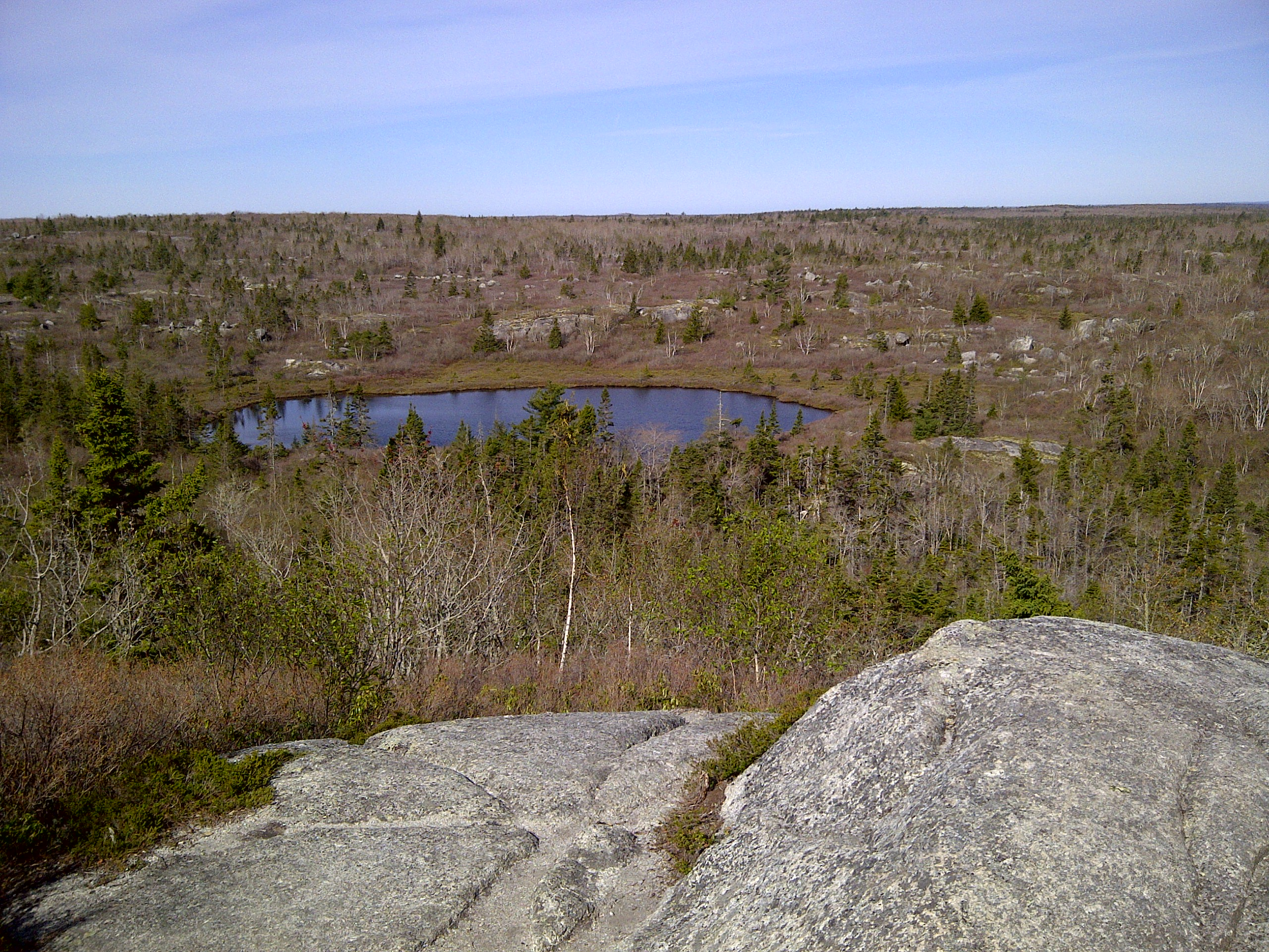 Looking westwards from the top of a hill on the Bluff Trail. This trail is located on the South Mountain Batholith, Nova Scotia, around 15 km west of downtown Halifax.